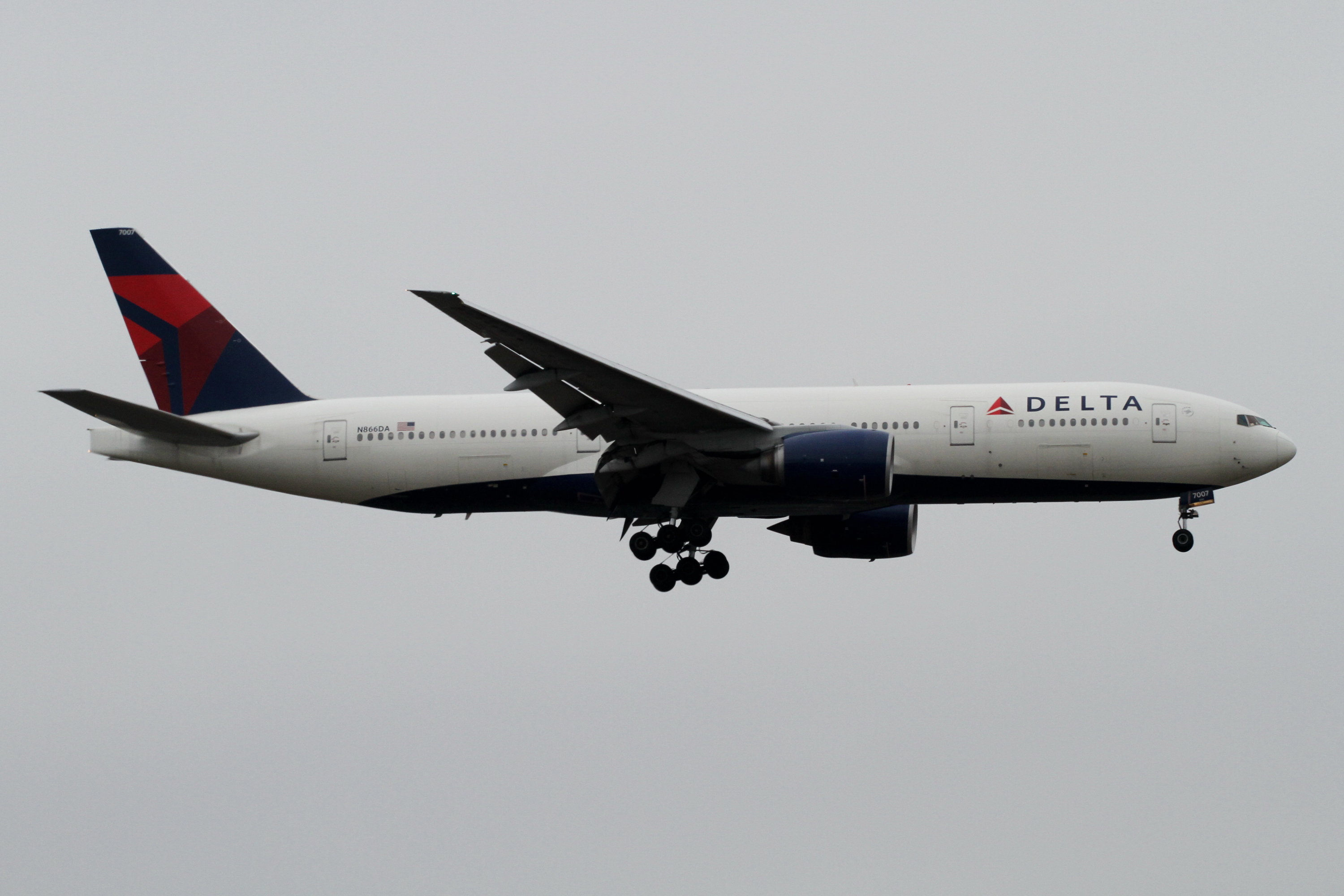 Narita International Airport, Boeing B777-232/ER, c/n:29738, Delta Airlines